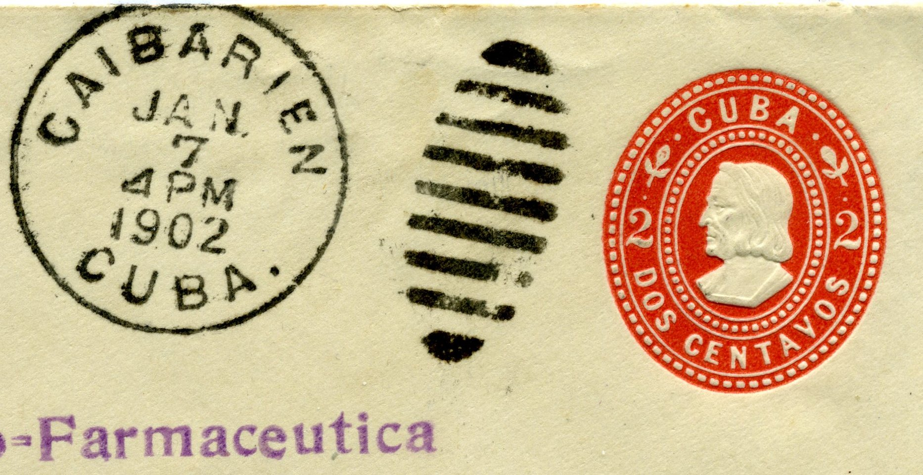 Example of duplex cancellation that failed to obliterate the indicium of the postal stationery. Cuba, 1902.